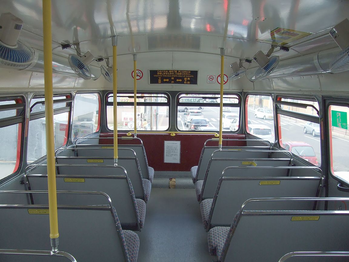 The second floor of Routemaster RM1164 operated in Shimonoseki City, Yamaguchi, Japan.